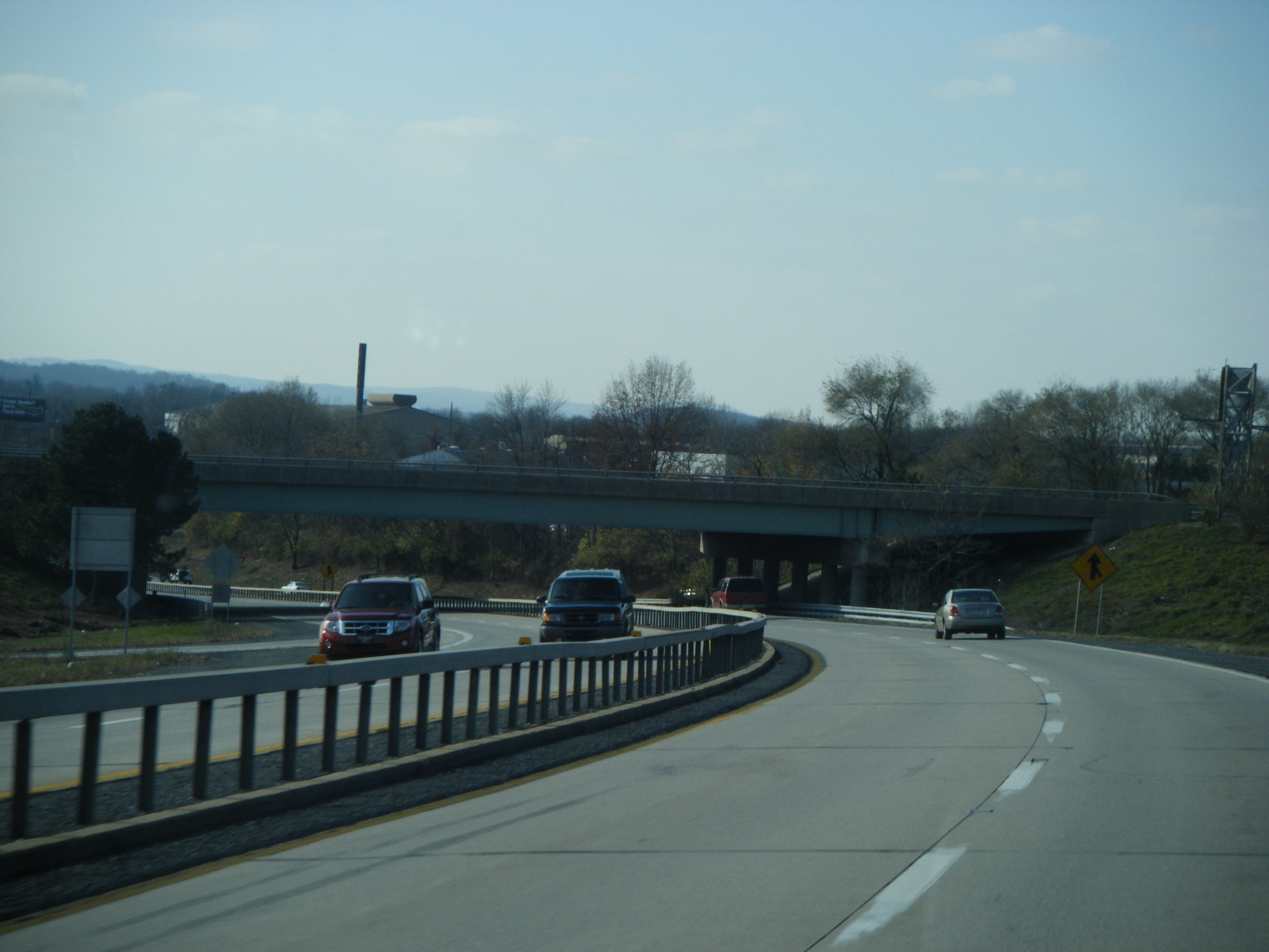 Westbound Pennsylvania Route 12 (Warren Street Bypass) at the interchange with U.S. Route 222 Business in Muhlenberg Township, Pennsylvania